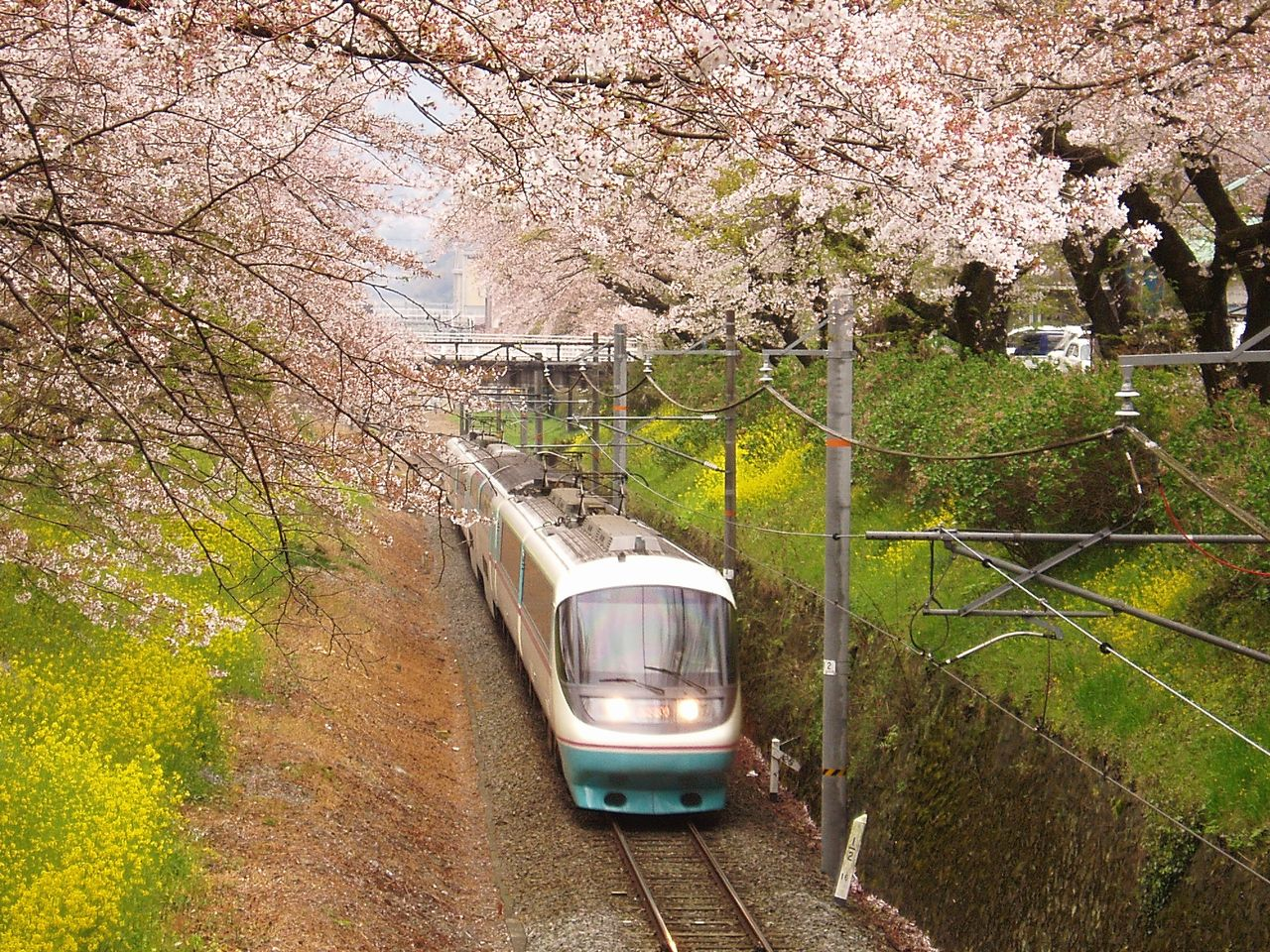 Odakyu Electric Railway, EMU type 20000 series "Resort Super Express(RSE)" Between Yamakita Sta. and Yaga Sta.